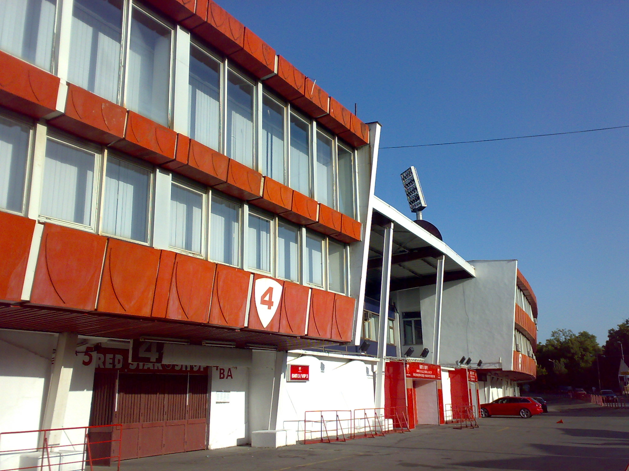 Red Star stadium, Belgrade